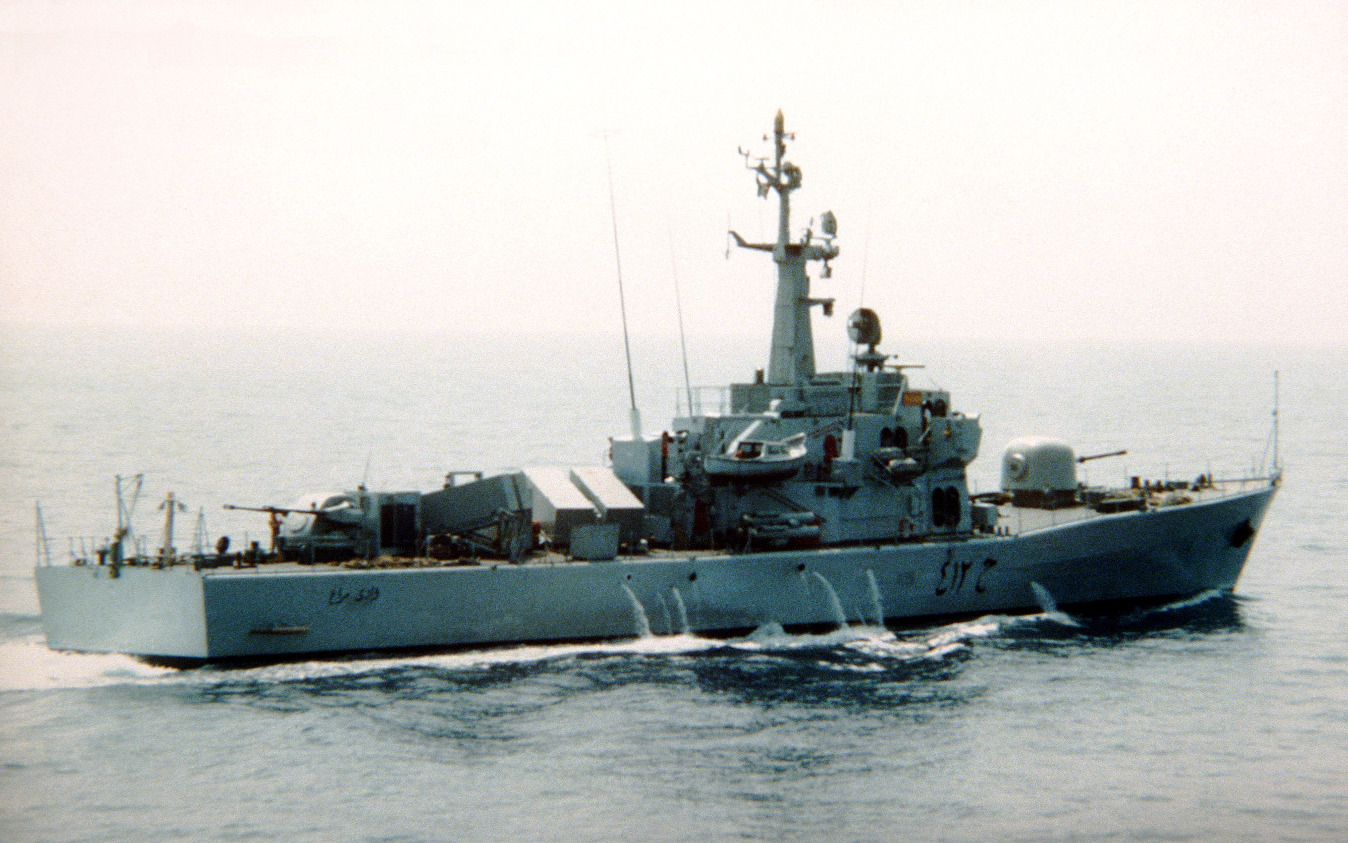 A starboard quarter view of a Libyan (Italian-built) Assad class missile corvette underway. Photographer's Name: Unknown Location: UNKNOWN Date Shot: 8/1/1982 Date Posted: unknown VIRIN: DN-ST-84-03946